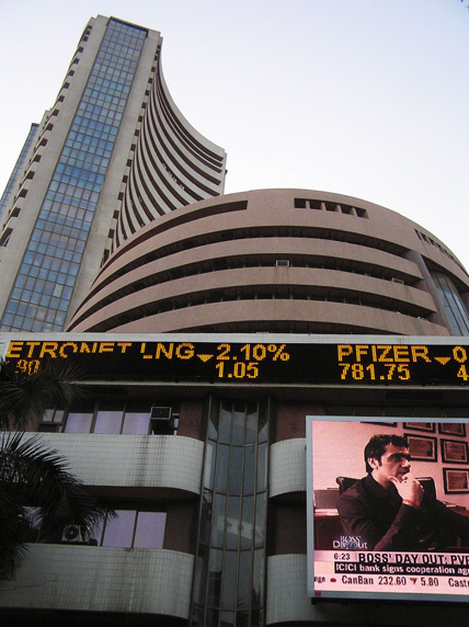 The Mumbai Stock Exchange stands tall, and is scaling new heights